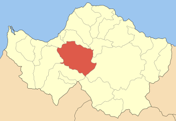 Locator map of Farron municipality (Δήμος Φαρρών) in Achaia perfecture (Νομός Αχαΐας) in Greece.